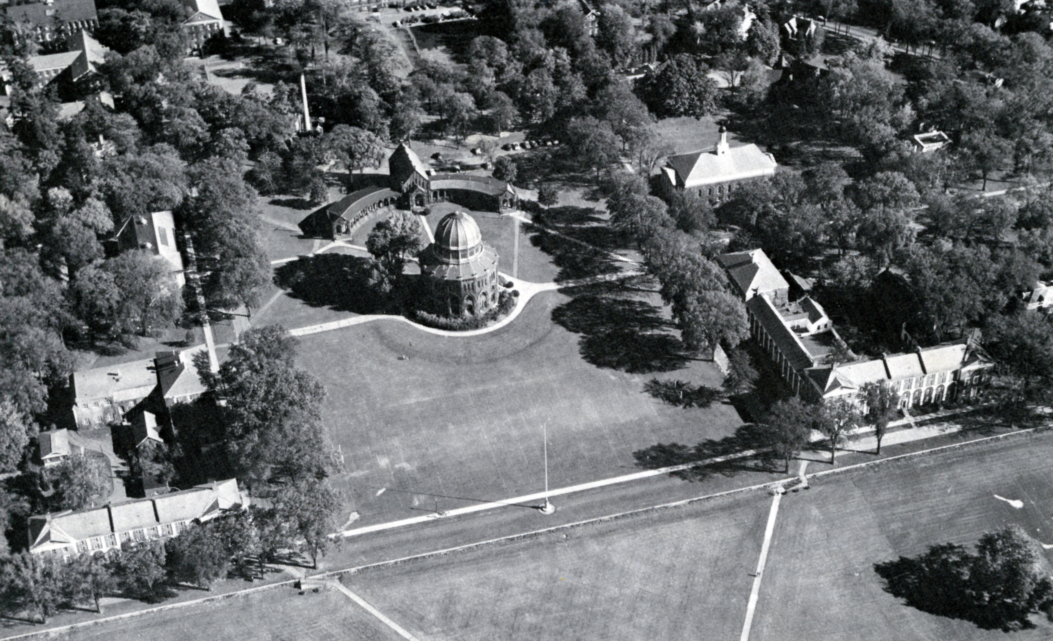 Aerial view of the campus of Union College in Schenectady, New York, United States, with the Nott Memorial prominently displayed near center.